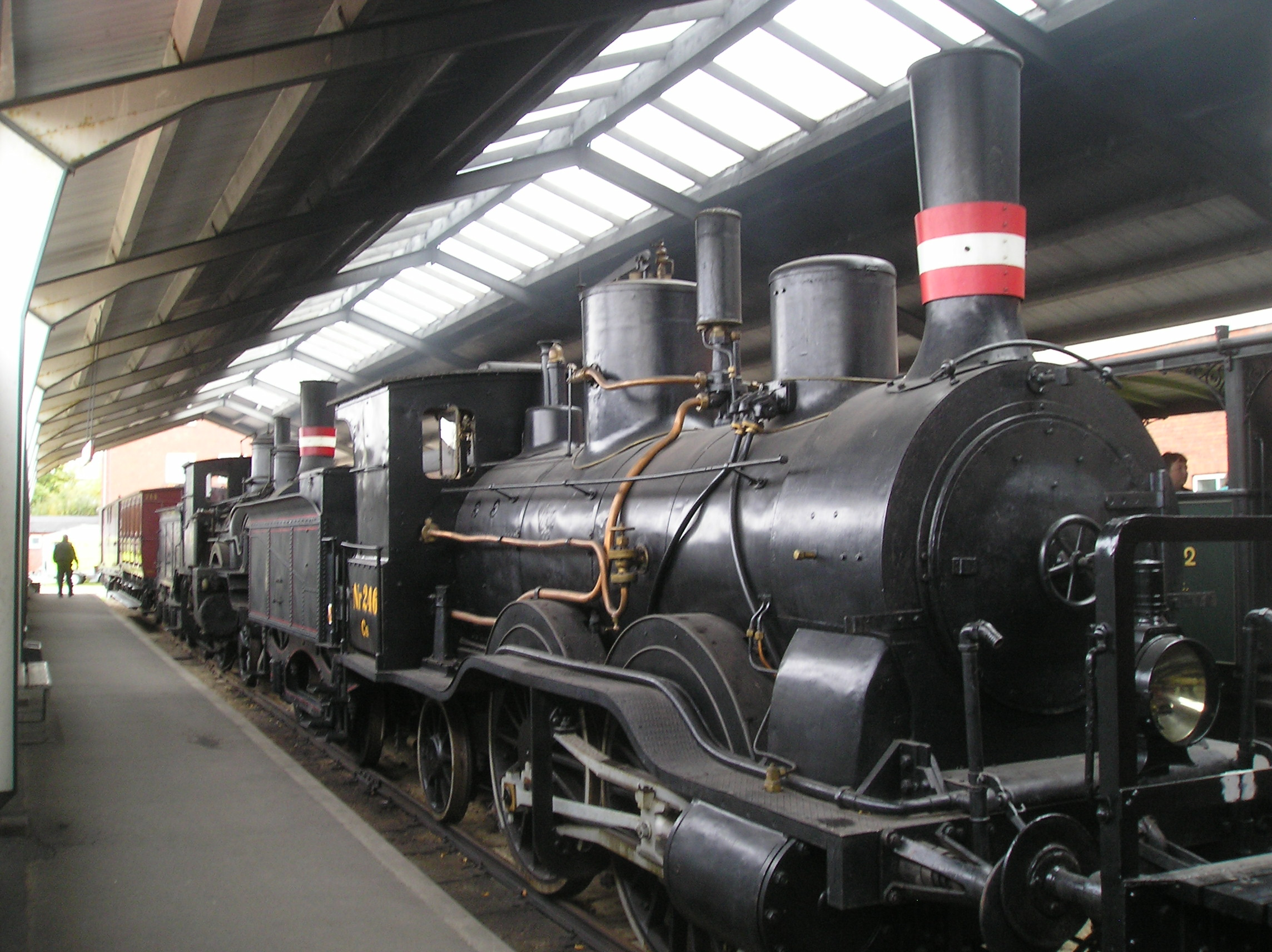 Danish steam locomotive DSB Cs 246 at Danmarks Jernbanemuseum.